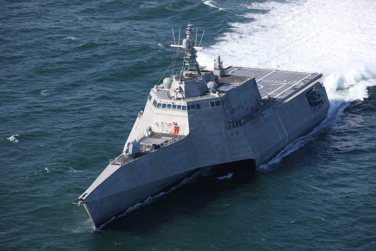 180304-N-N0101-349GULF OF MEXICO (March 8, 2018) The future USS Tulsa (LCS 16) is underway for acceptance trials, which are the last significant milestone before delivery of the Independence-variant littoral combat ship to the Navy. During trials, the Navy conducted comprehensive tests of the future USS Tulsa, intended to demonstrate the performance of the propulsion plant, ship handling abilities and auxiliary systems. (U.S. Navy photo courtesy of Austal USA/Released)